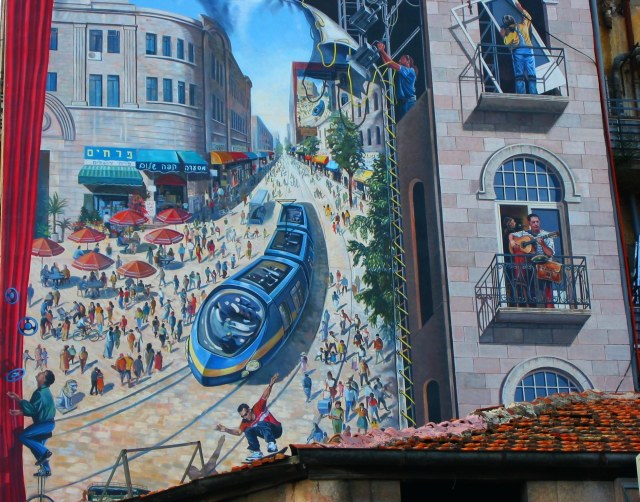 a grafiti of the light train in jerusalem. taken by גילה ברנד